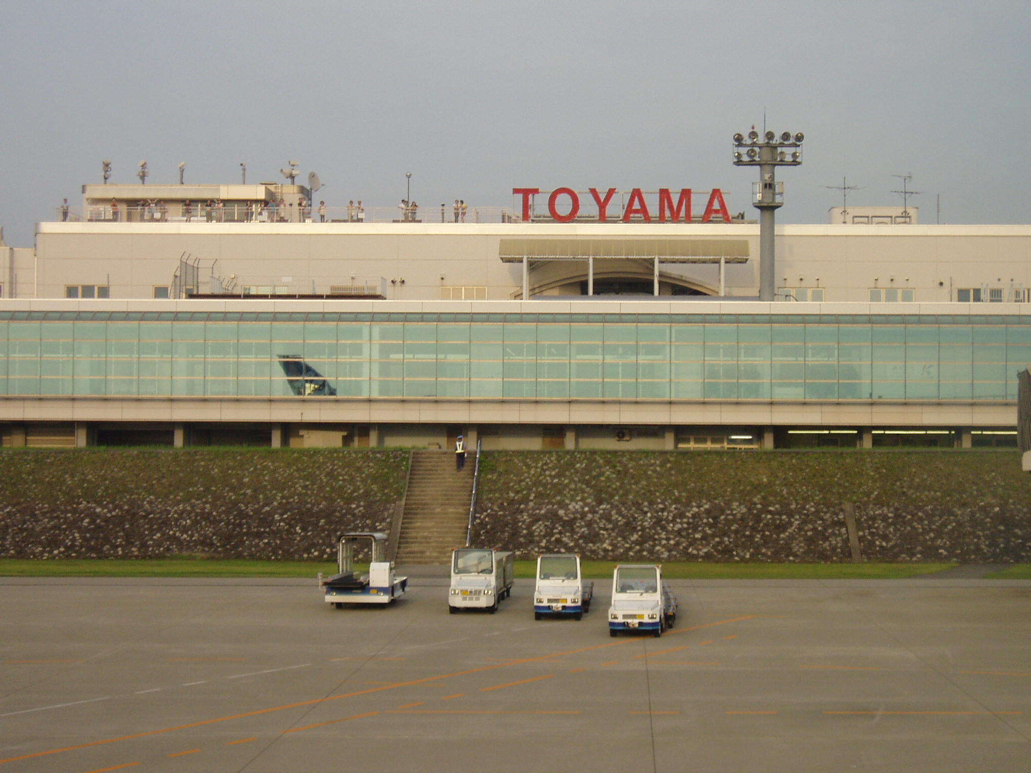 The Building of Toyama Airport.